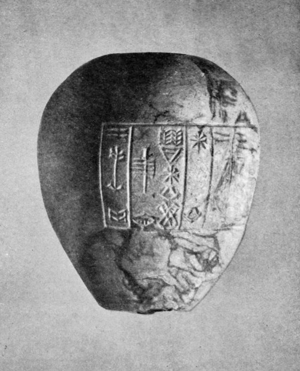 Macehead dedicated to Shamash by Shar-Kali-Sharri king of Akkad. British Museum 1883,0118.700 (inscription). Original caption: "Macehead dedicated to Shamash, the Sun-God, by Shar-Gani-sharri, king of Agade, Brit. Mus. No. 91146, by Messrs. Mansell & Co." (King 1910 identifies "Shar-Gani" with Sargon of Akkad) Douglas Frayne, Sargonic and Gutian Periods, 2334-2113 BC, Issue 2 of RIM the Royal Inscriptions of Mesopotamia Series, University of Toronto Press, 1993.